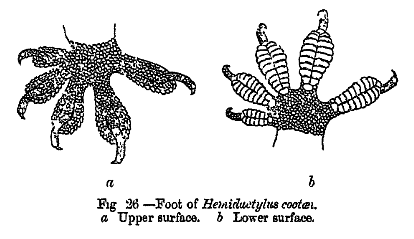 Hemidactylus gecko feet Hemidactylus coctaei (Syn. Hemidactylus bowringii)